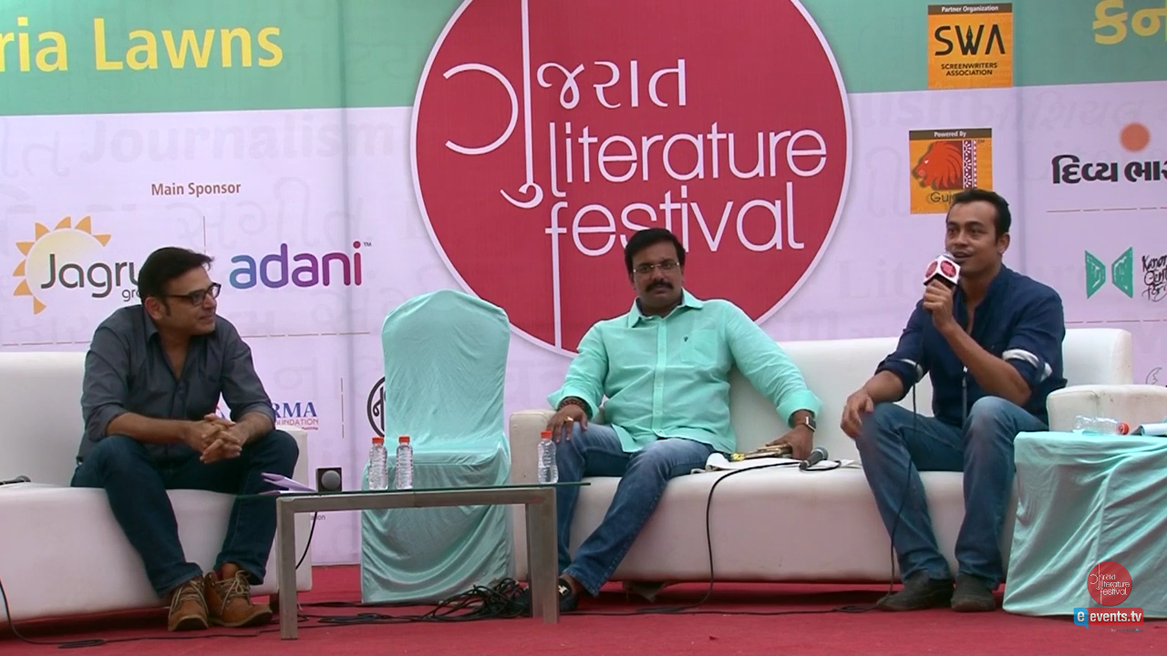 Harsh Chhaya, Ankit Trivedi and Abhishek Jain at Gujarati Literature Festival Ahmedabad on 18 December 2016